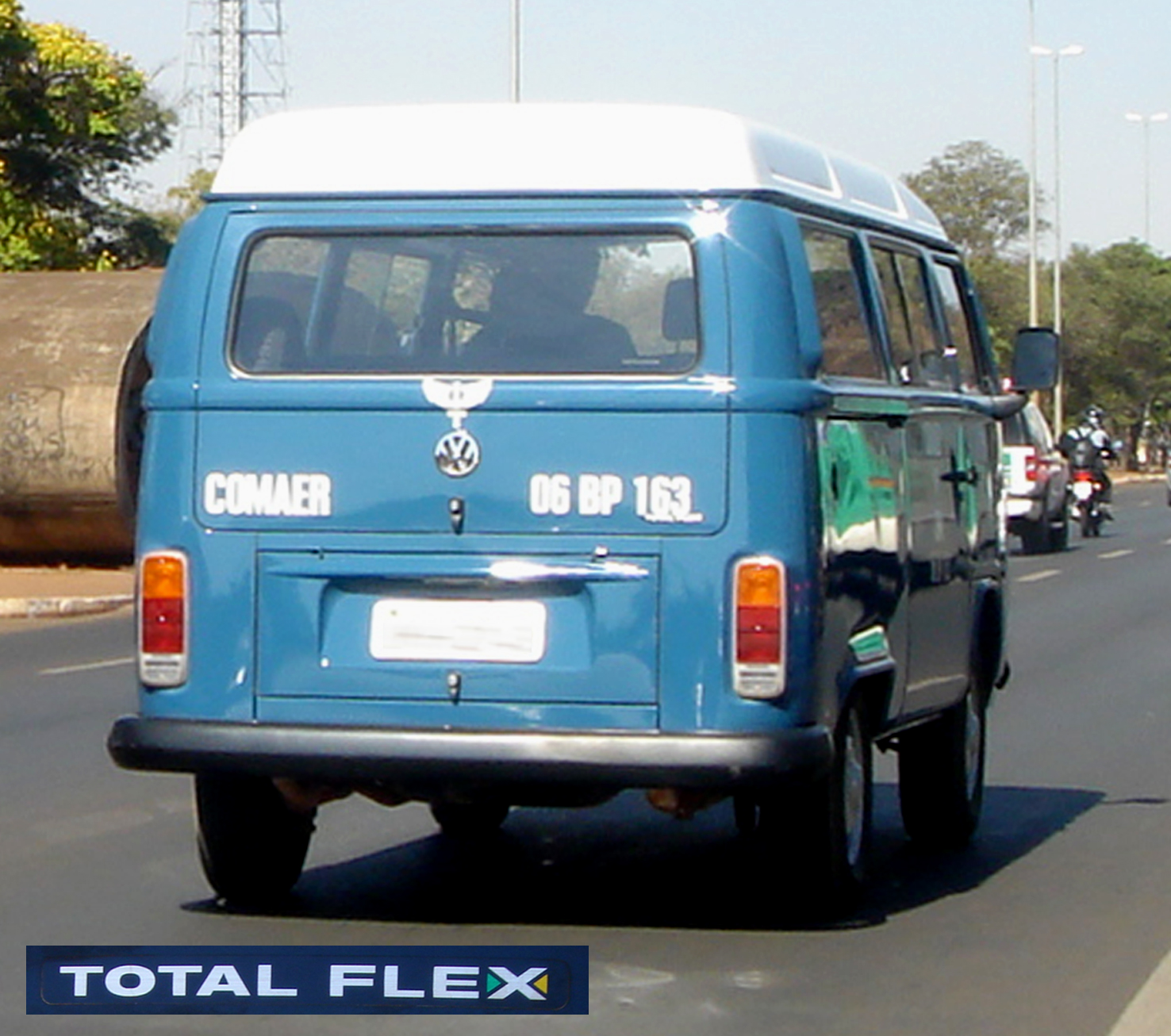 Brazilian flex-fuel version of Volkswagen Kombi TotalFlex, shown rear view with 'Total Flex' version badge